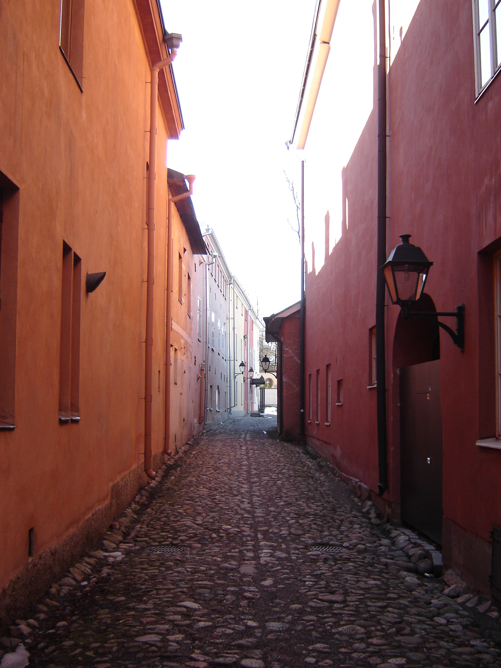 A medieval street in Turku, Finland.